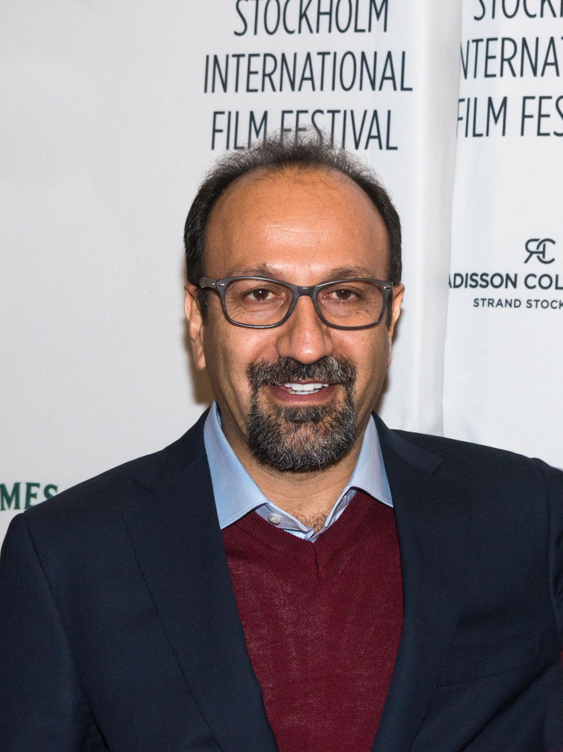 Asghar Farhadi during the Stockholm International Film Festival on November 9, 2018.